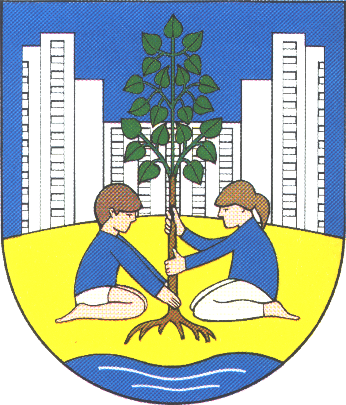 Coat of arms of Hohenschönhausen, a former boroughs of Berlin.